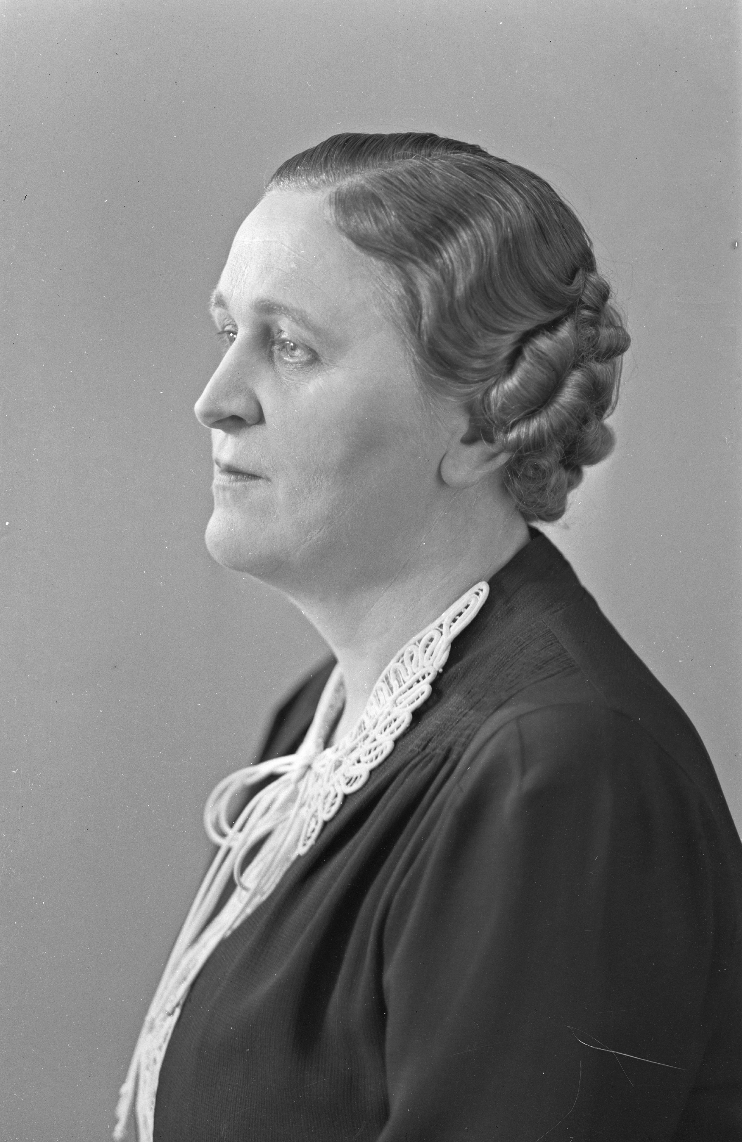 Photograph of the Finnish politician Kyllikki Pohjala (1894–1979).